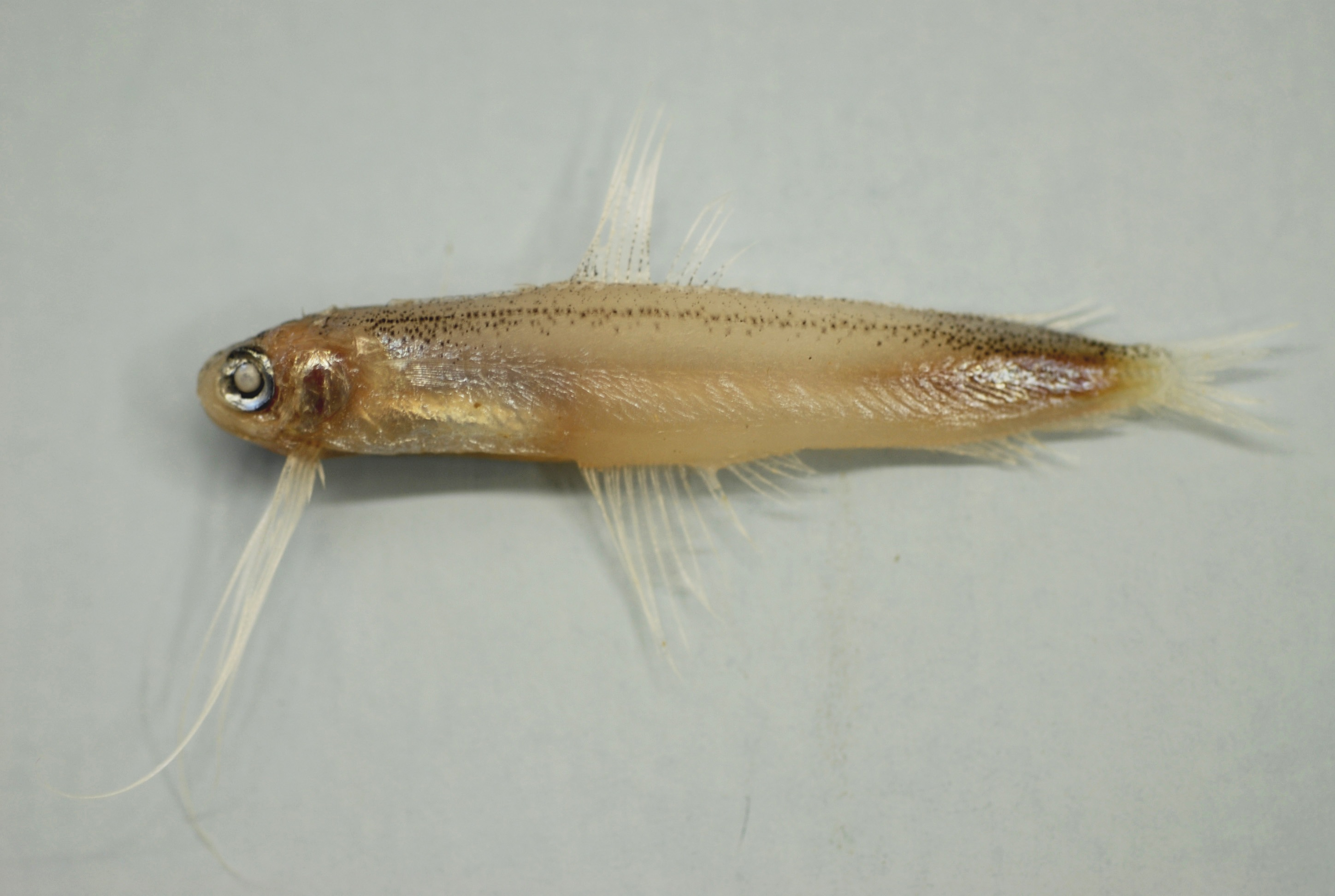 Antenna codlet ( Bregmaceros atlanticus ). Gulf of Mexico.